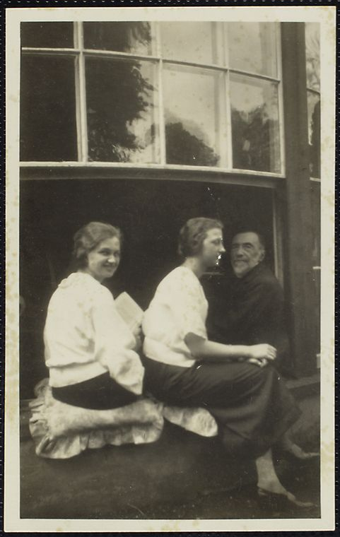 Joseph Conrad and his nieces: Aniela Zagórska (left), Karola Zagórska (center). The image was originally identified in the New York Public Library Archives as "Polish-British writer Joseph Conrad and two unidentified women". The women were identified by Wikipedia Nihil novi, see discussion at Talk:Joseph_Conrad#Aniela_Zag.C3.B3rska_and_Karola_Zag.C3.B3rska.